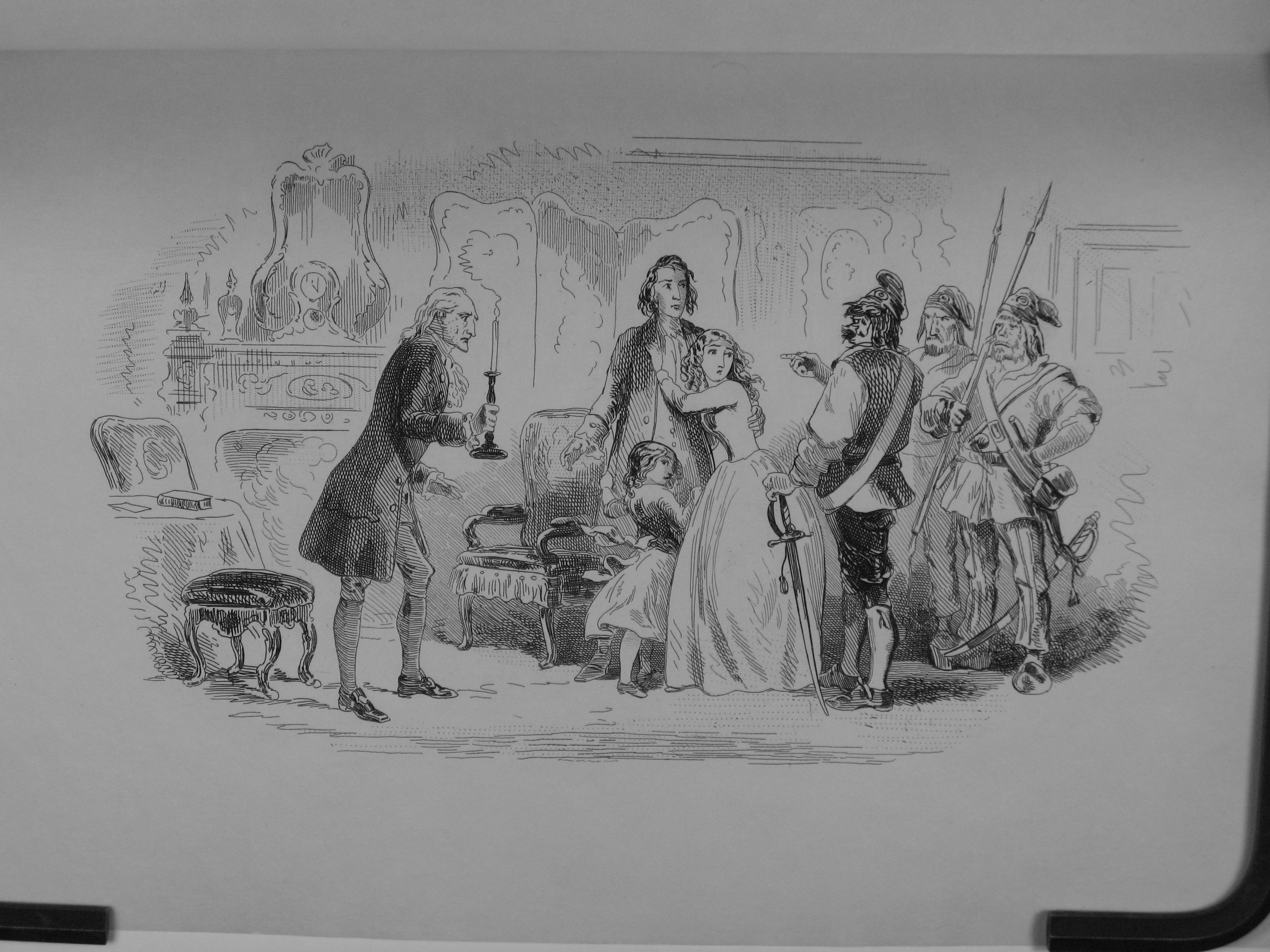 A photograph of an engraving in The Writings of Charles Dickens volume 20, A Tale of Two Cities, titled "The Knock at the Door".